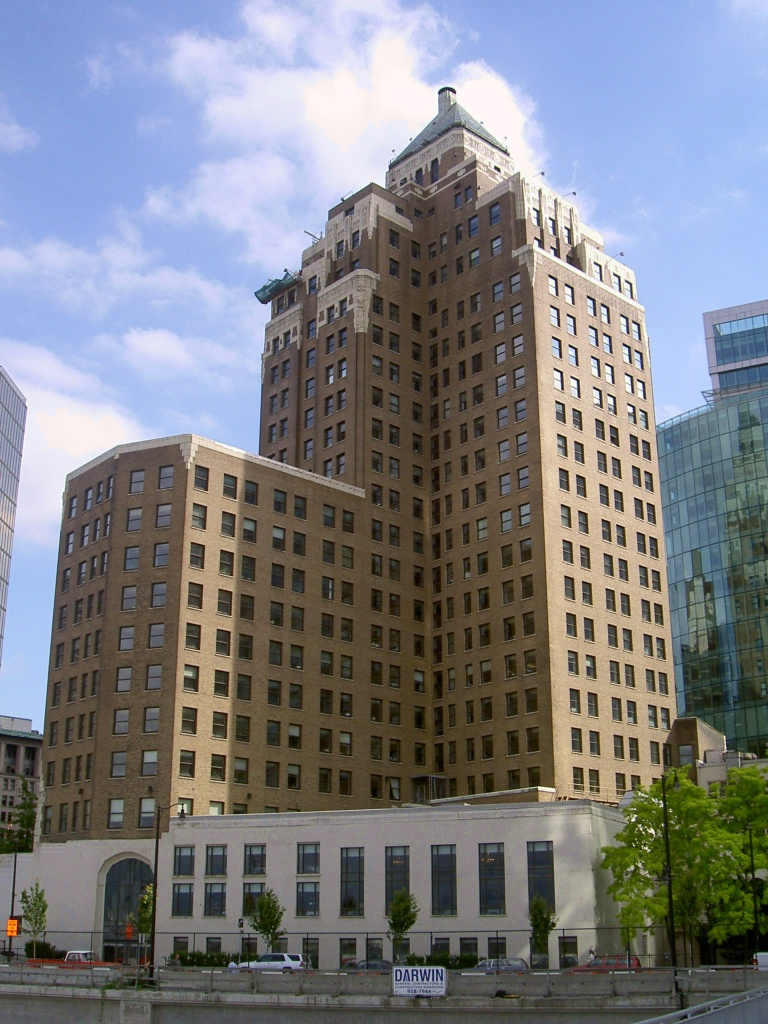 Marine Building in Vancouver, Canada.